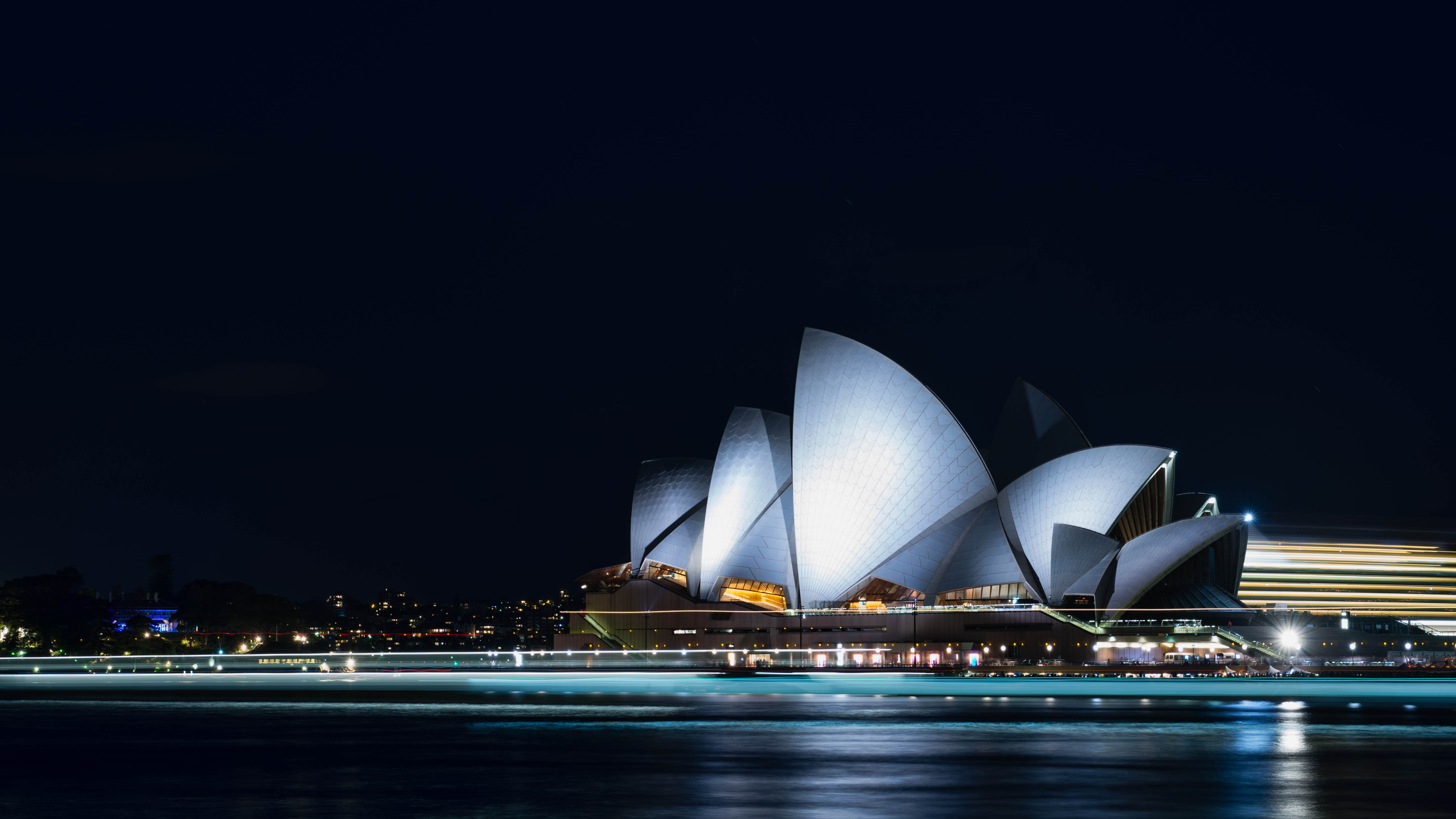 The Sydney Opera House at night